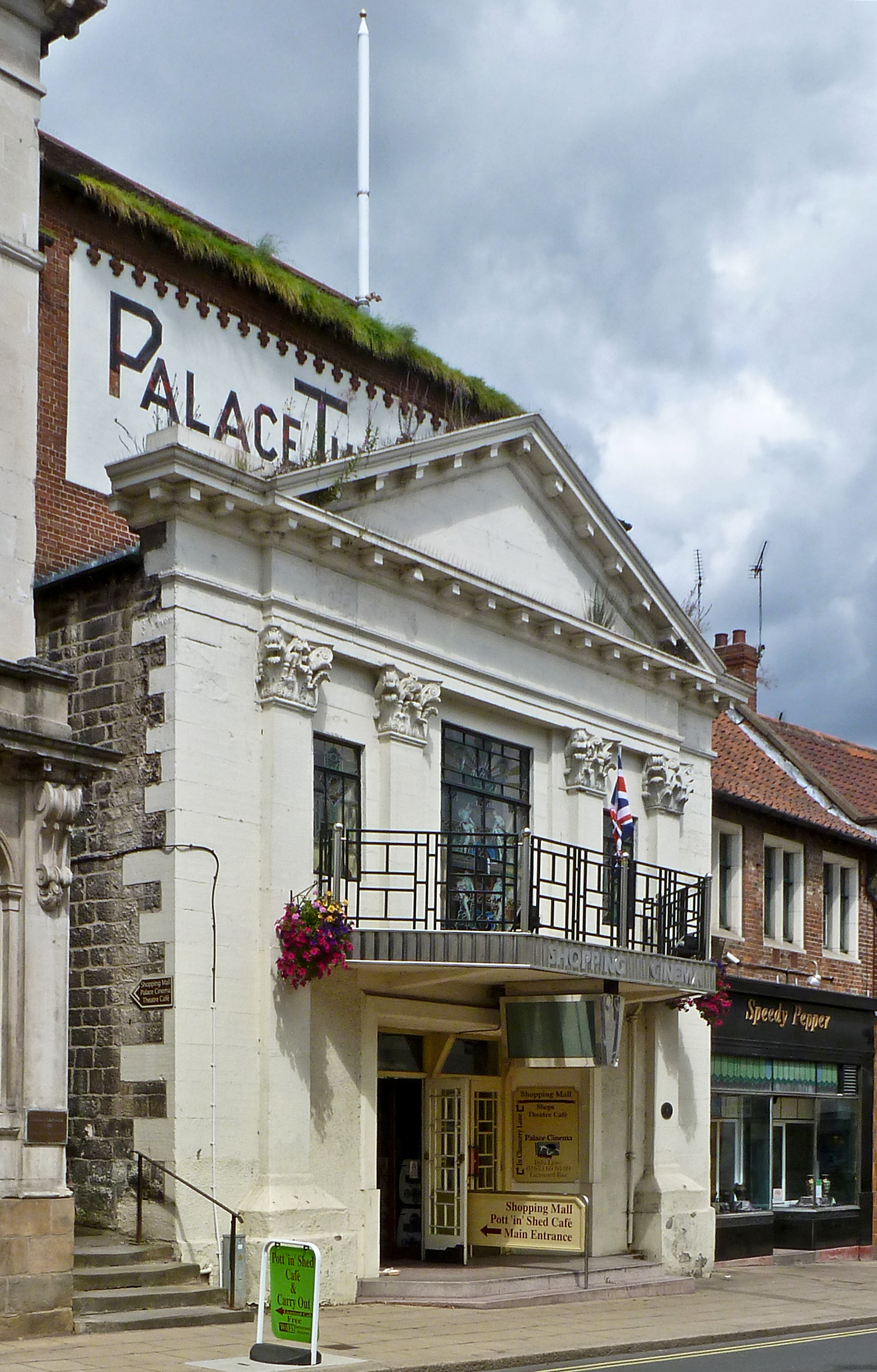 Built as a Corn Exchange, but corn was never exchanged here